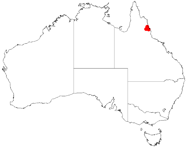 Scaevola oppositifolia occurrence data downloaded from Australasian Virtual Herbarium 12 May 2019